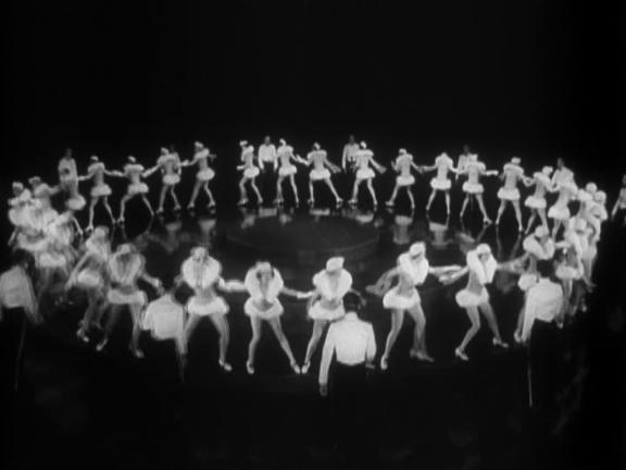 Frame from public domain trailer for 1933 Warner Bros. film 42nd Street showing costumed dance during production number